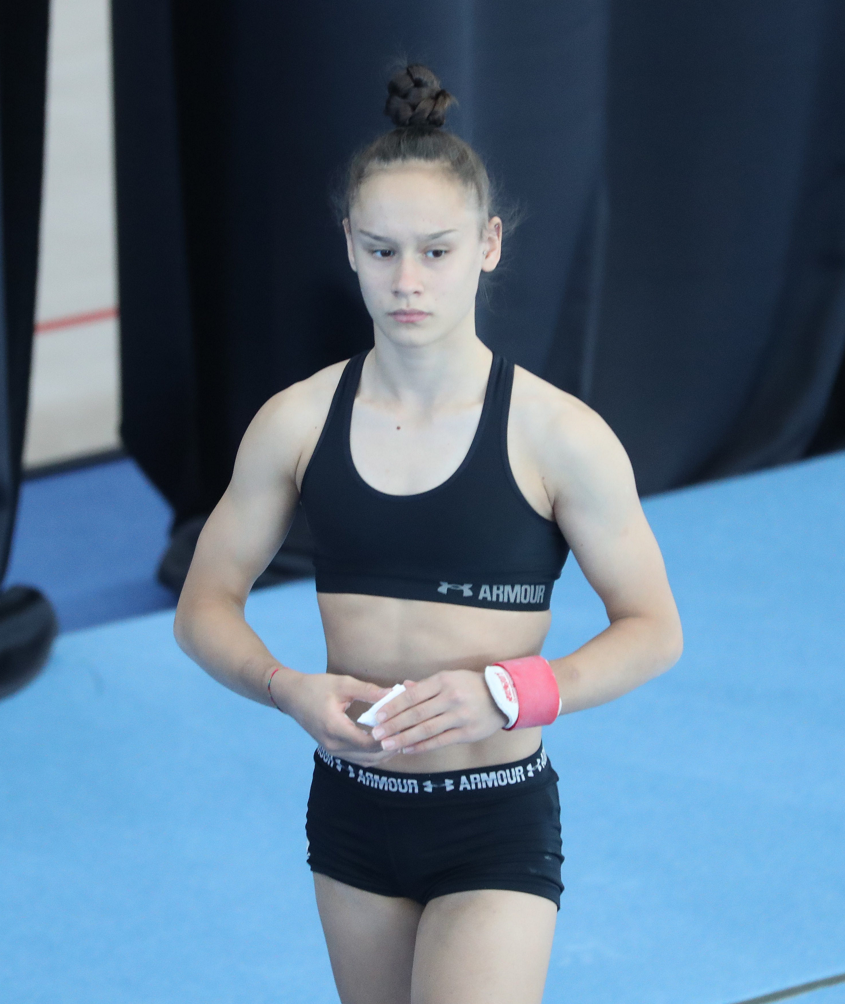 Training of girls' artistic gymnastics at the 2018 Summer Youth Olympics in Buenos Aires on 5 October 2018. Depicted: Nazlı Savranbaşı.